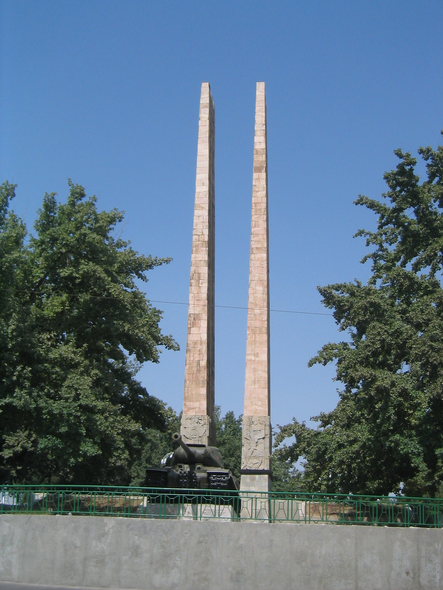 World War II monument ("donkey's ears"), Dushanbe